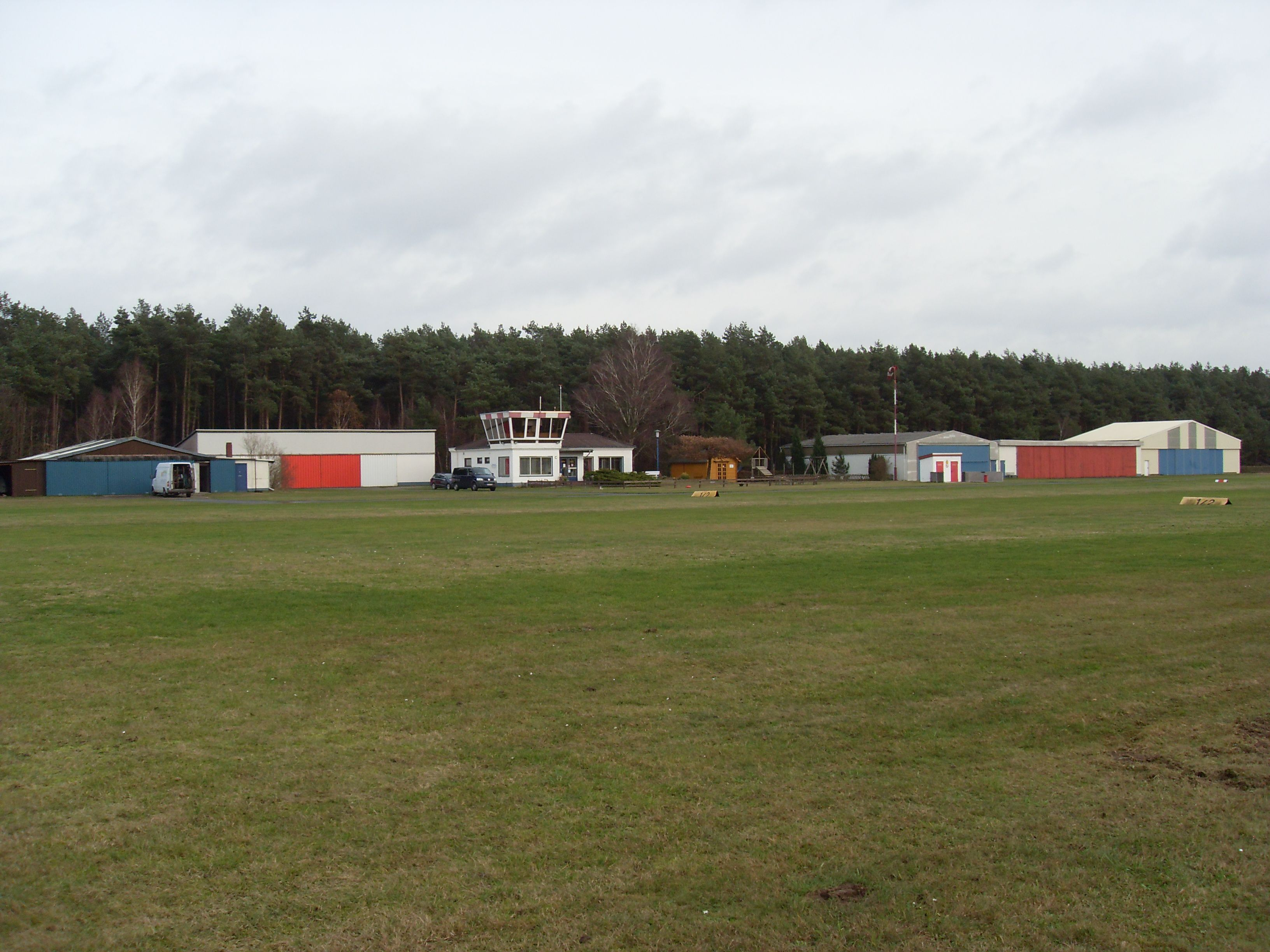 Buildings on Airport Verden-Scharnhorst